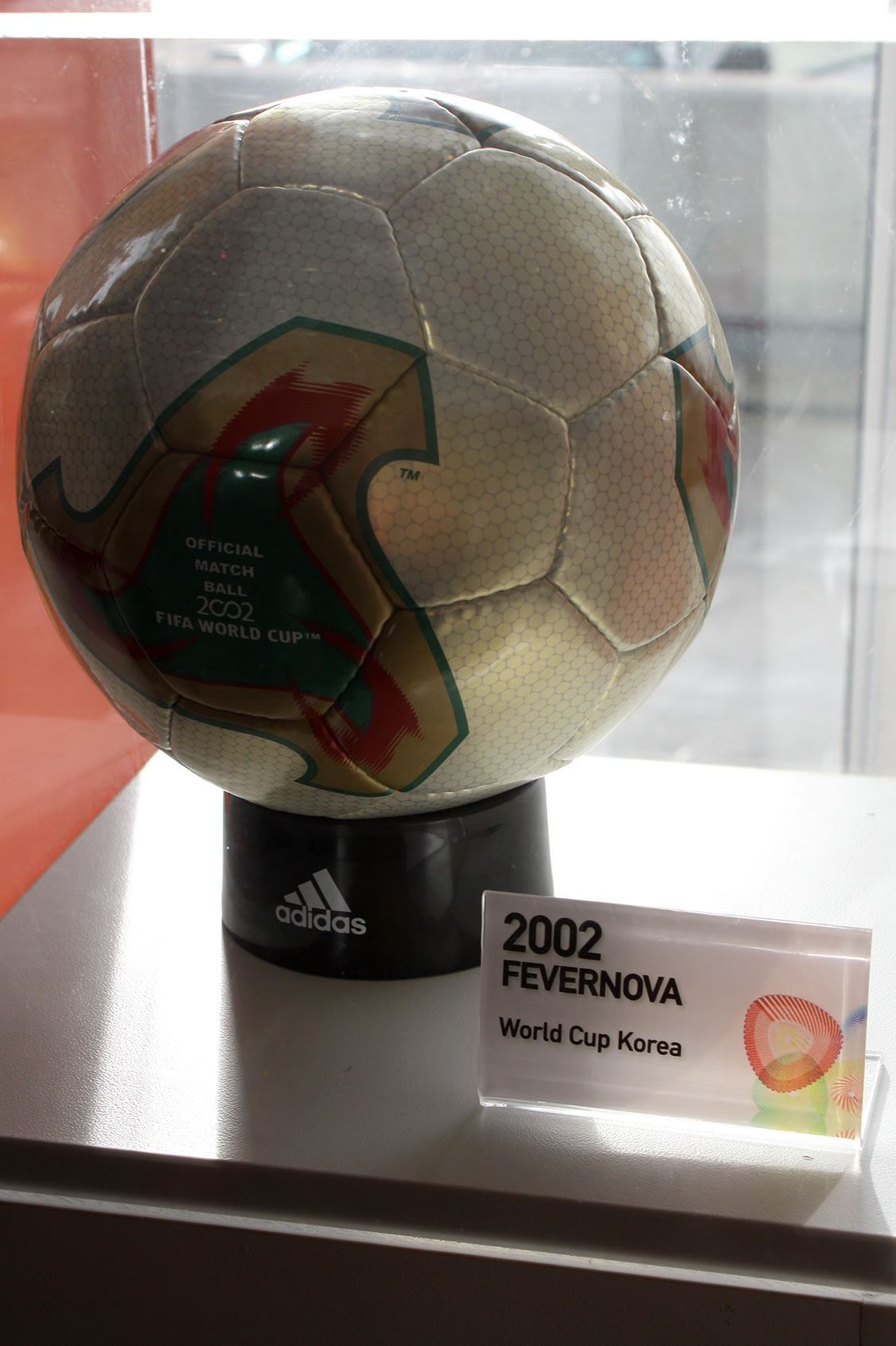 Adidas Fevernova was the Official Match Ball for the 2002 FIFA World Cup Korea/Japan. "The Adidas Fevernova was the first World Cup Match Ball since 1978 to part from the traditional Tango design introduced in 1978. The colorful and revolutionary look and color usage was entirely based on Asian culture. The Fevernova featured a refined syntactic foam layer to give the ball superior performance characteristics and a three-layer, knitted chassis, allowing for a more precise and predictable flight path every time."